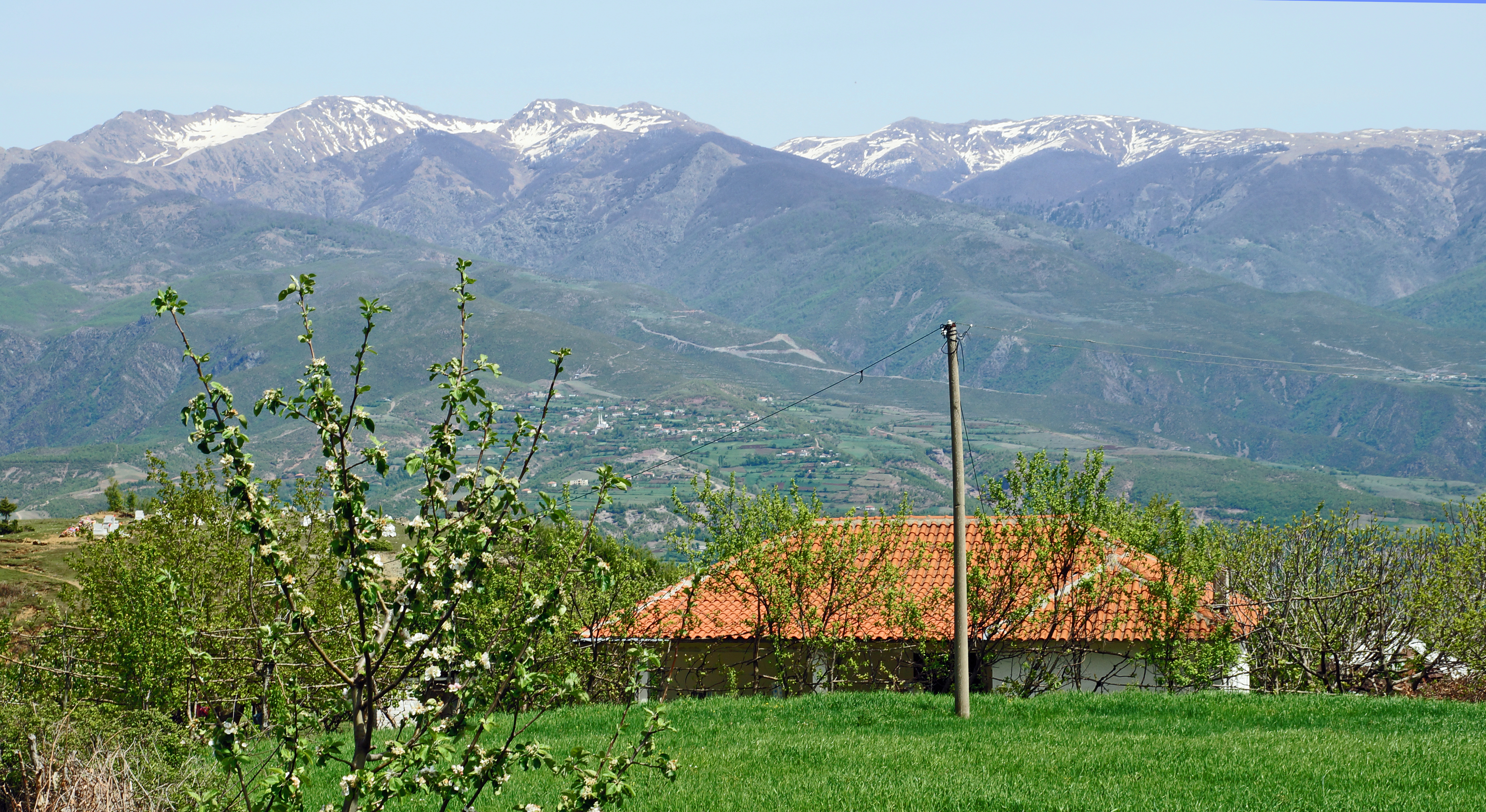 Mount Shebenik in Eastern Albania seen accross the Shkumbin Valley. The highest peaks are on the left side.